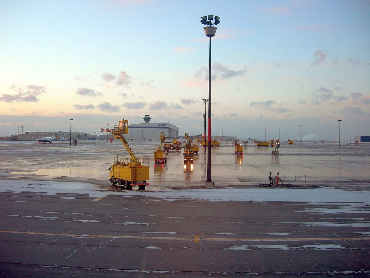 The historic community of Elmbank, Ontario, is now covered by the deicing facility at Toronto Pearson Airport.